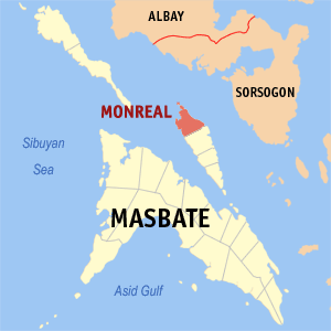 Map of Masbate showing the location of Monreal